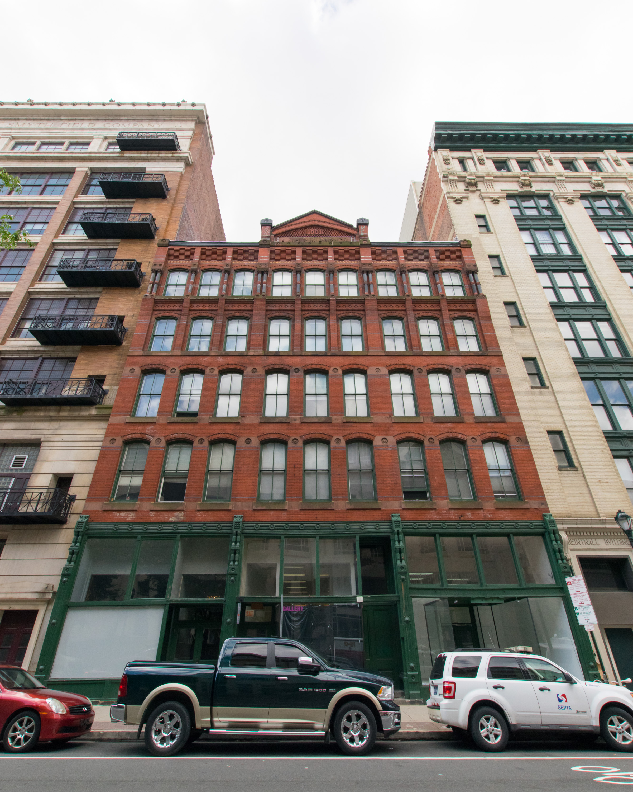 A. J. Holman and Company building